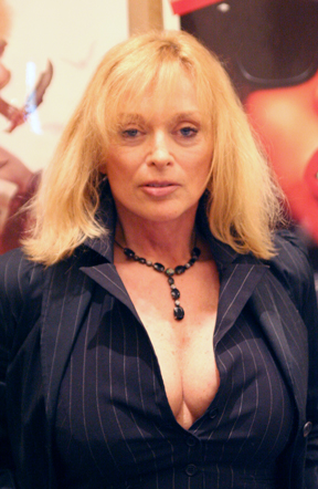 Austrian B-movie actress Sybil Danning